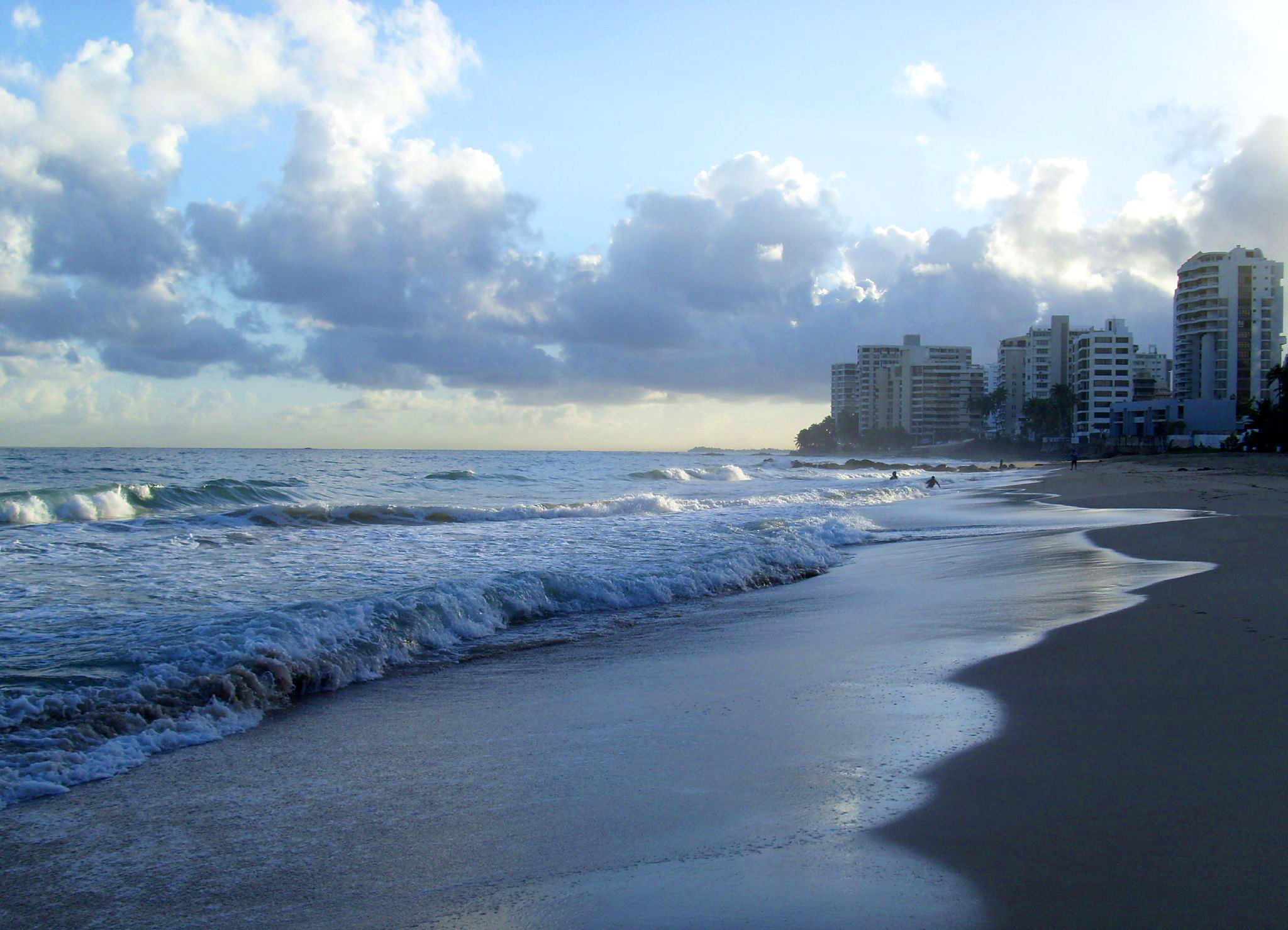 Stormy and beautiful